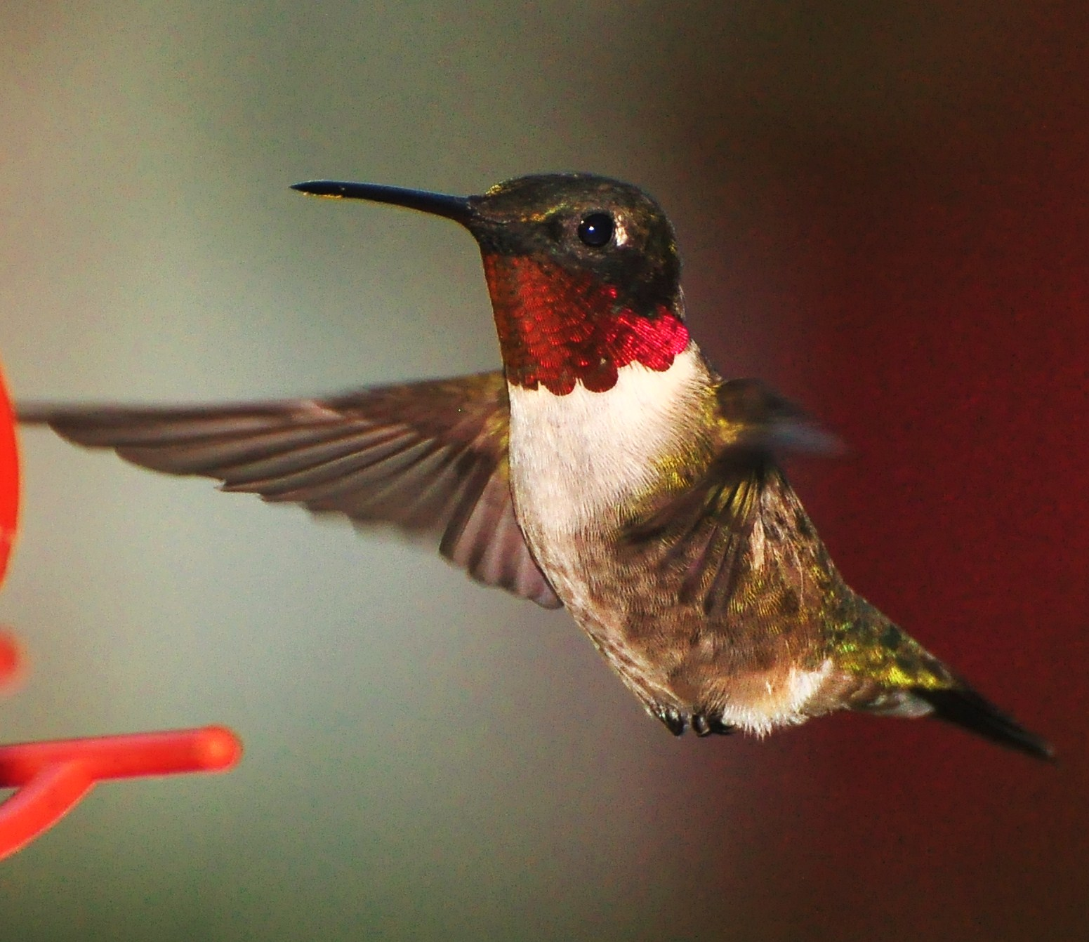 Ruby-throated Hummingbird Archilochus colubris, Illinois